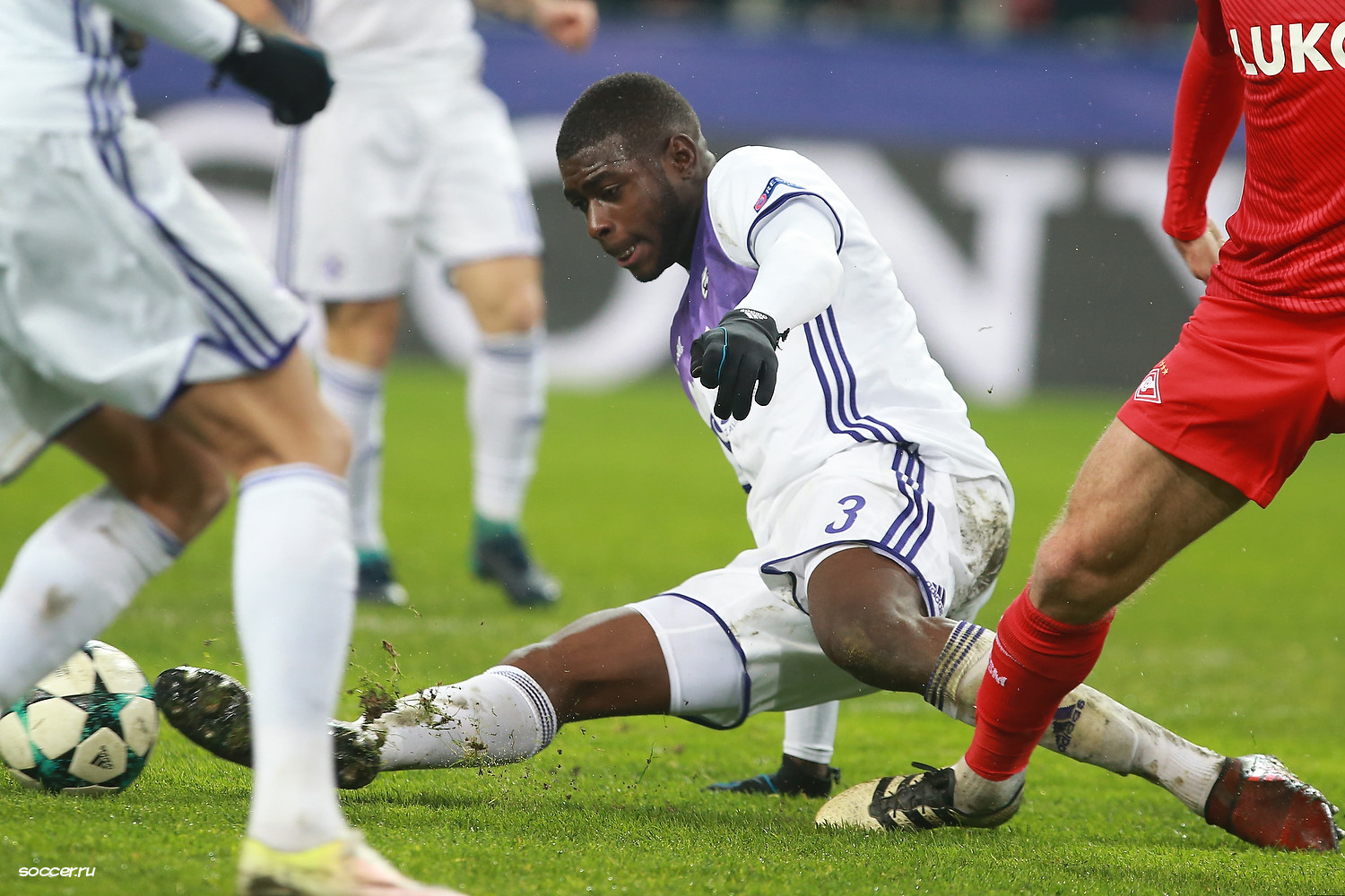 Spartak Moscow VS. Maribor